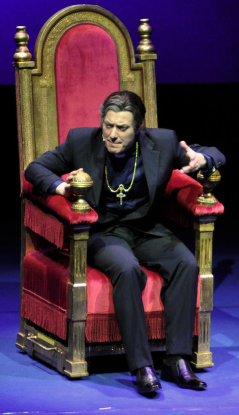 Photo of Corrado Guzzanti's character Don Florestano Pizzarro live in Bologna. Flickr uploader's description: "Bologna, IT (05/2009)")